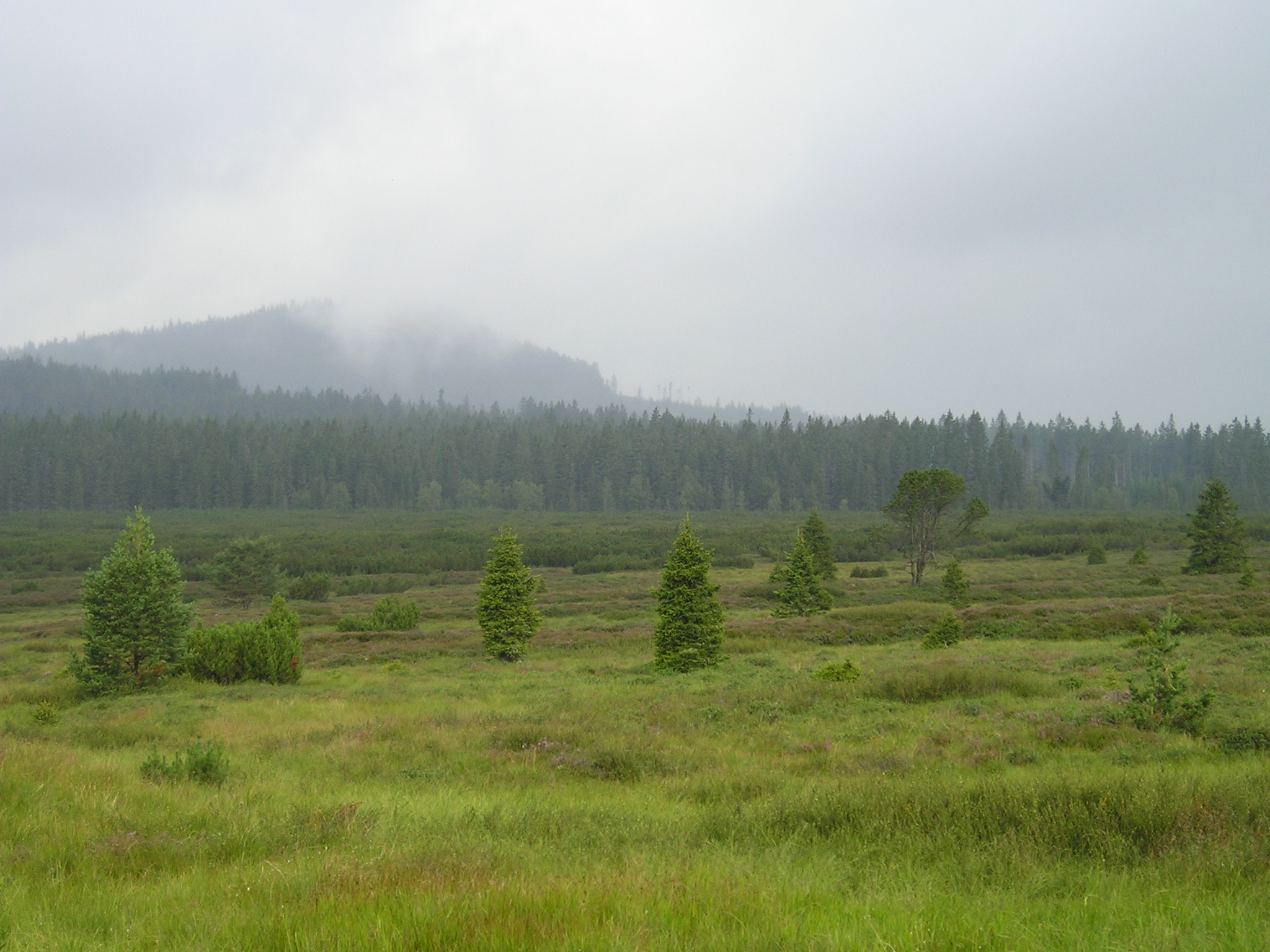 Lakemoor